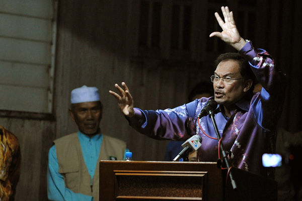 P36: Kubang Ikan, Kuala Terengganu. Anwar Ibrahim campaigning.